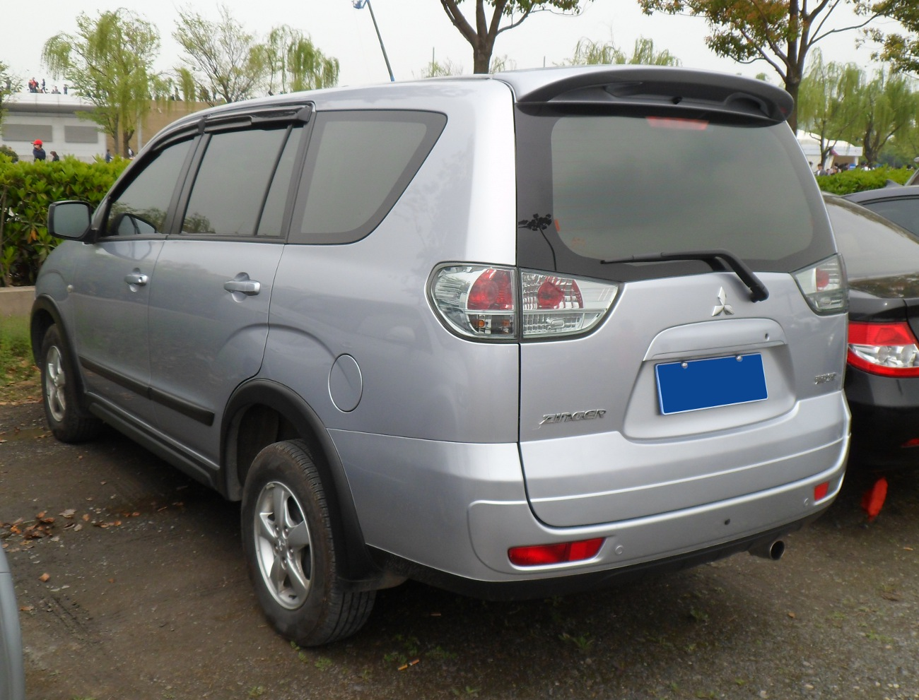 Mitsubishi Zinger photographed in Anting, Shanghai municipality, China.